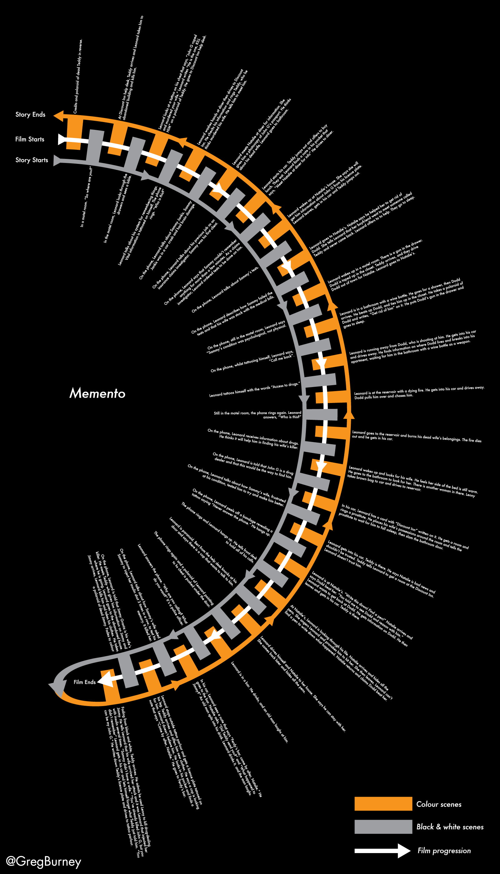 Visual map of the structure of the film Memento. The orange bar shows the colour scenes, the grey bar shows the black and white scenes. The white bar shows the film's progression as seen by the viewer. The actual story can be read in chronological order by following "Story starts" round the curve.